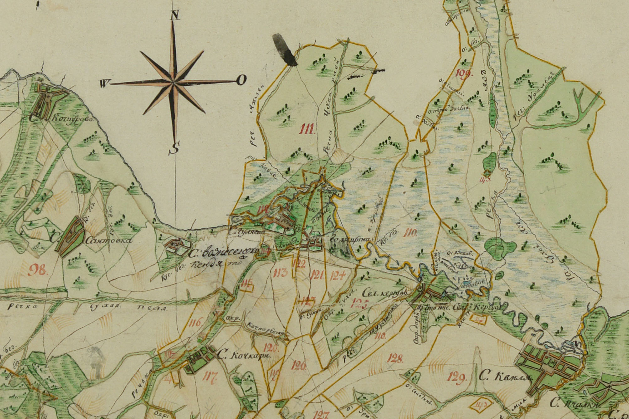 Village Kendya (Voznesenskoe) on the 18th century map